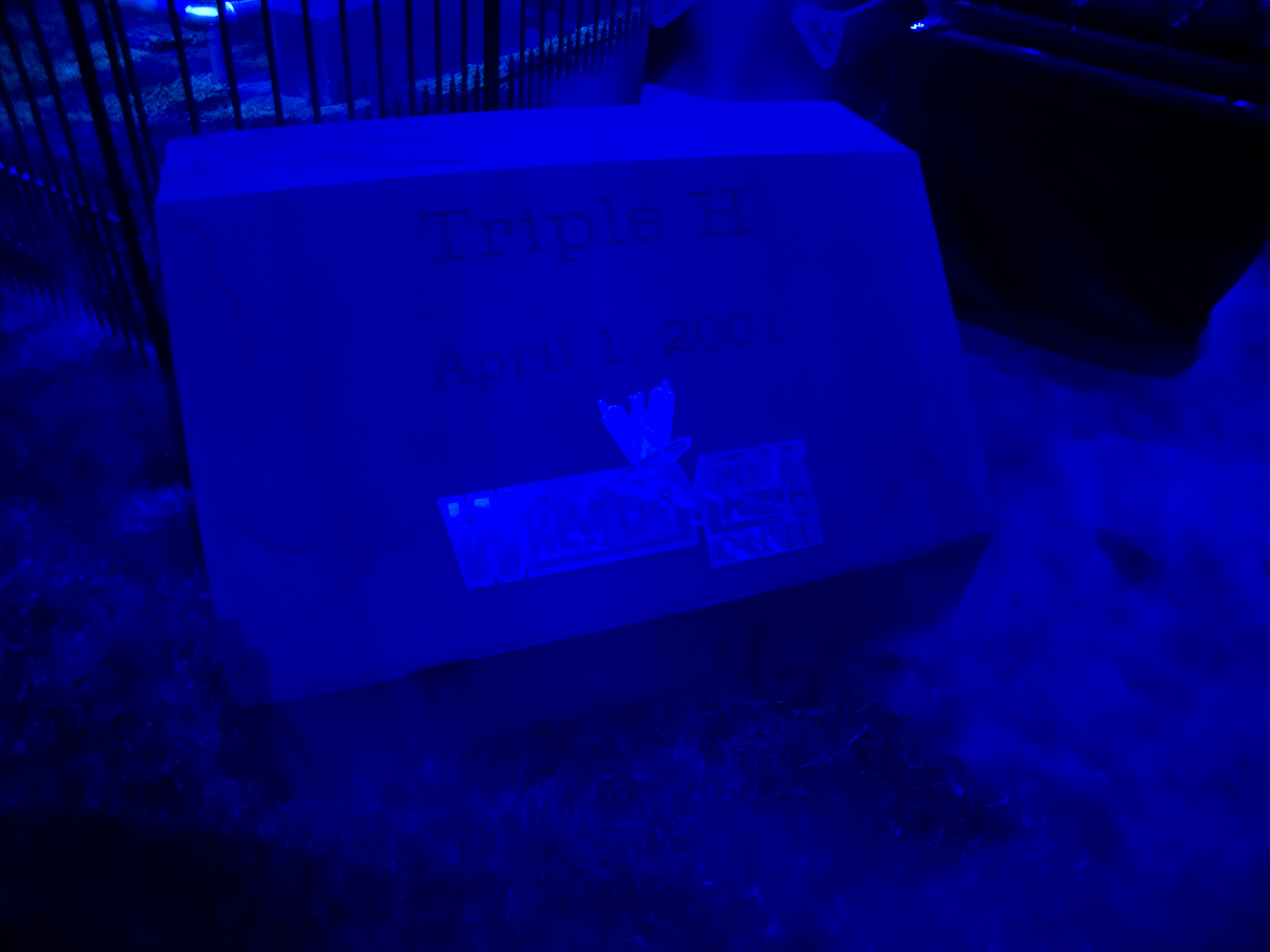 The Undertaker's Graveyard @ Axxess